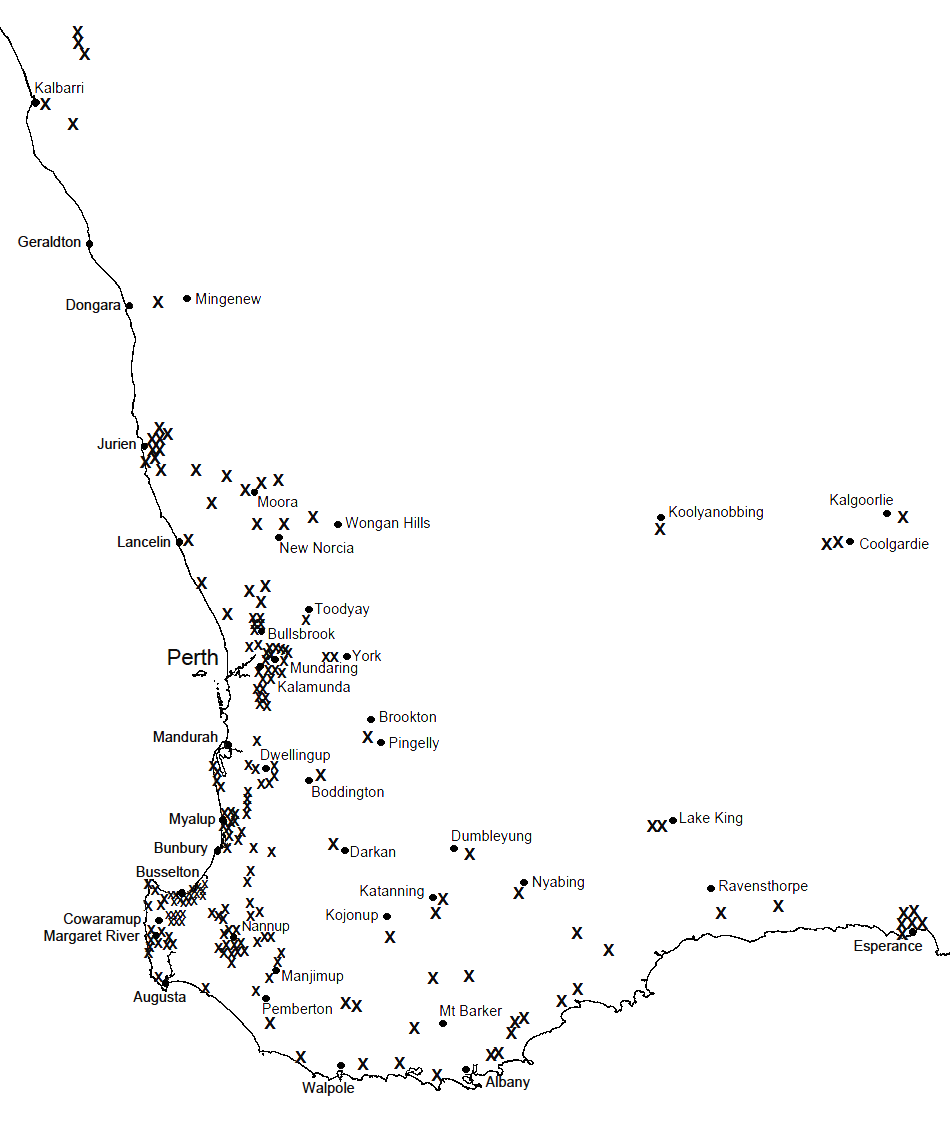 Alleged thylacine sightings in the south west of Western Australia.